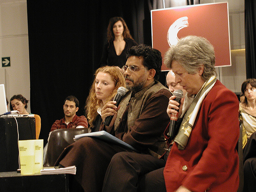 Miloon Kothari, the man with a microphone, the first Special Rapporteur on adequate housing for the Office of the High Commissioner for Human Rights, addressing a conference in Spain.